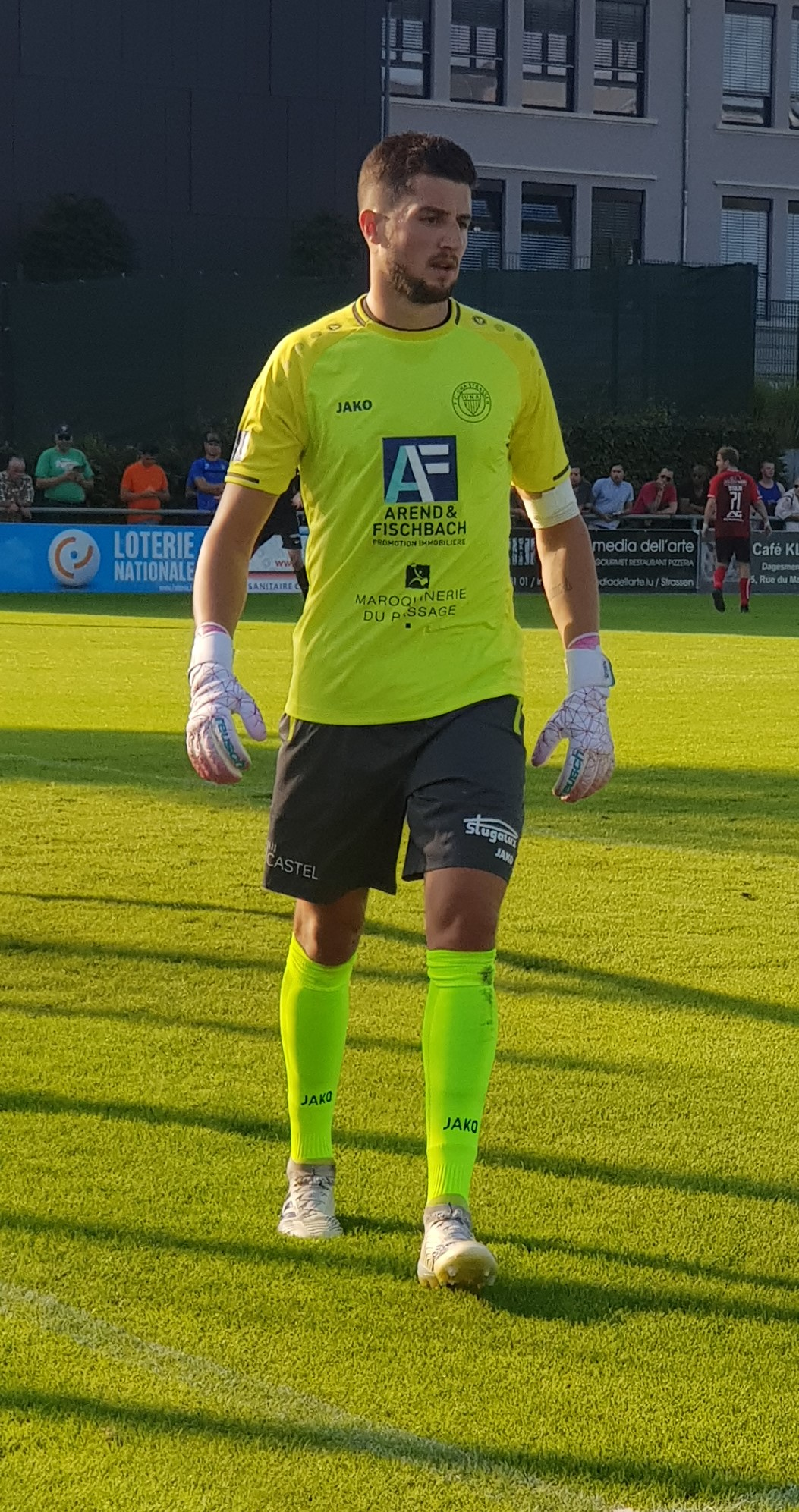 Ralph Schon, in the FC UNA Strassen dress, against FC Differdange 03 on 25 August 2019